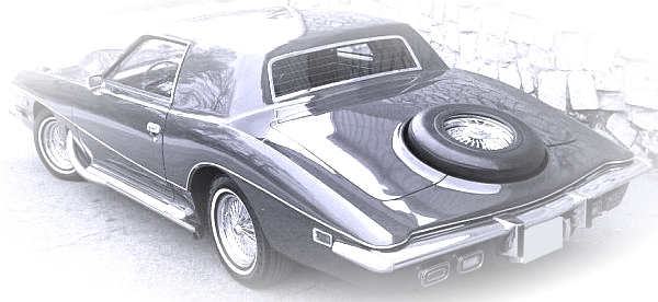 Stutz Blackhawk Series III Coupé (1978)